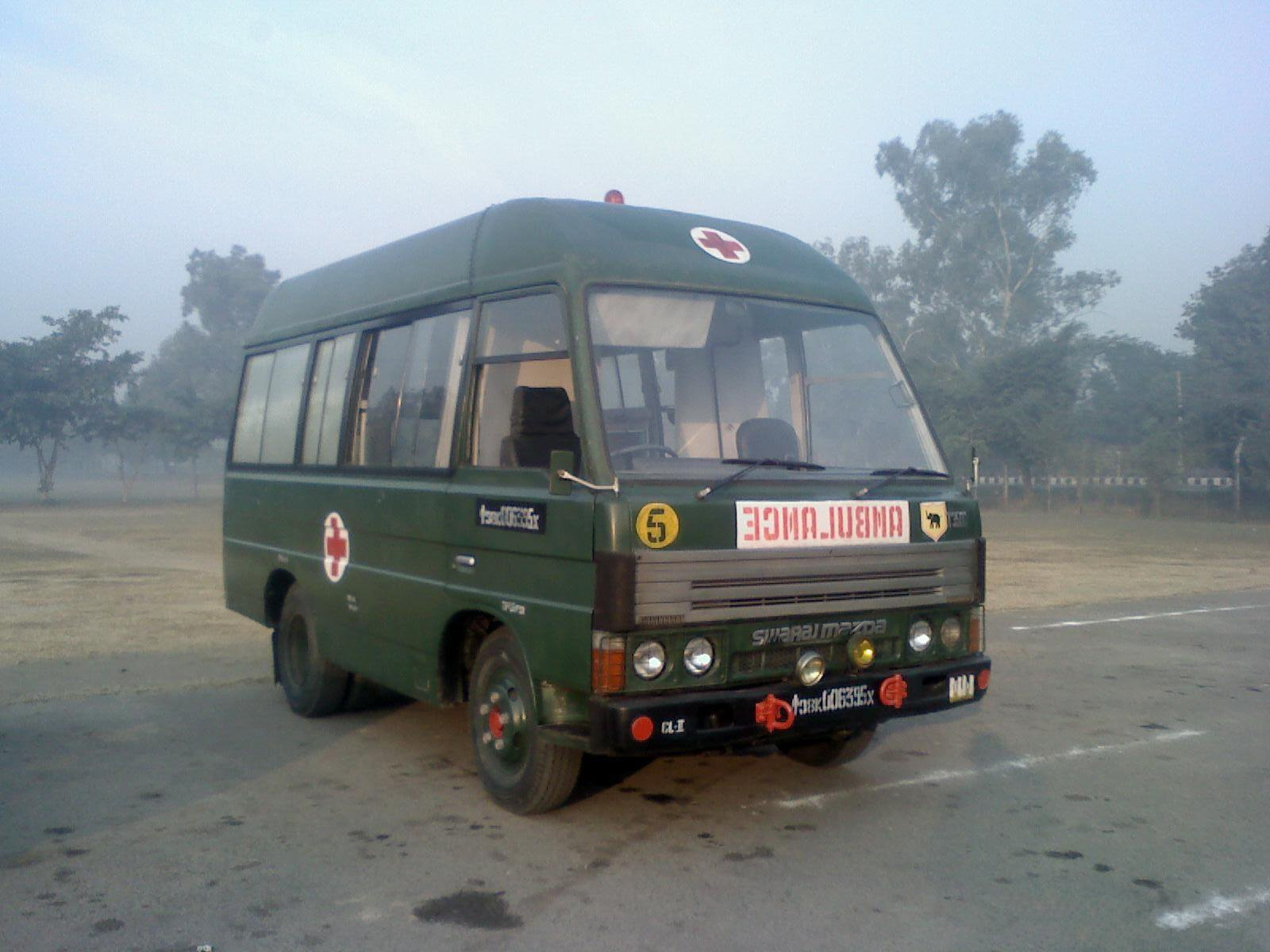 Indian Army`s light ambulance Swaraj Mazda T3500, with "AMBULANCE" in mirror writing ("ECNALUBMA").